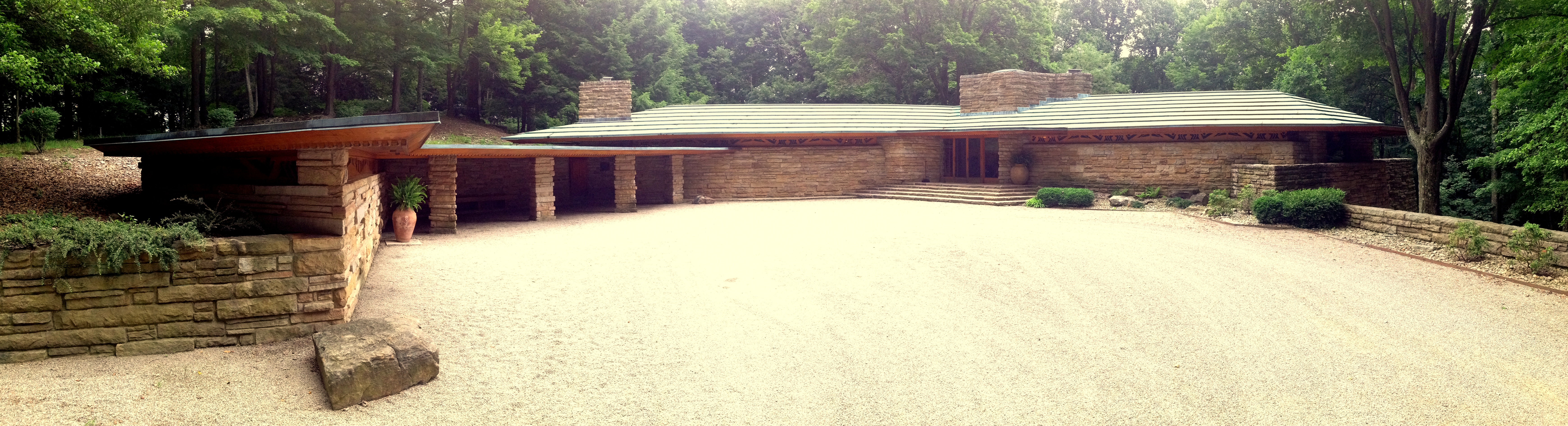 Kentuck Knob, designed by Frank Lloyd Wright.